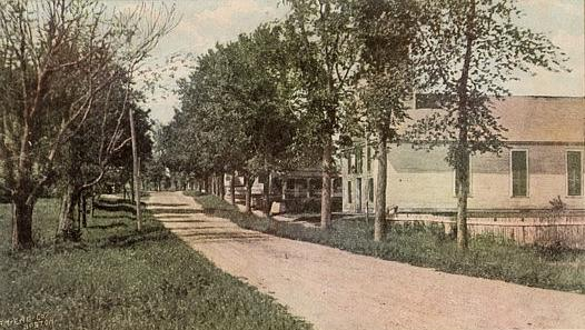 Main Street and Murray Hall (The Grange), Marlow, New Hampshire